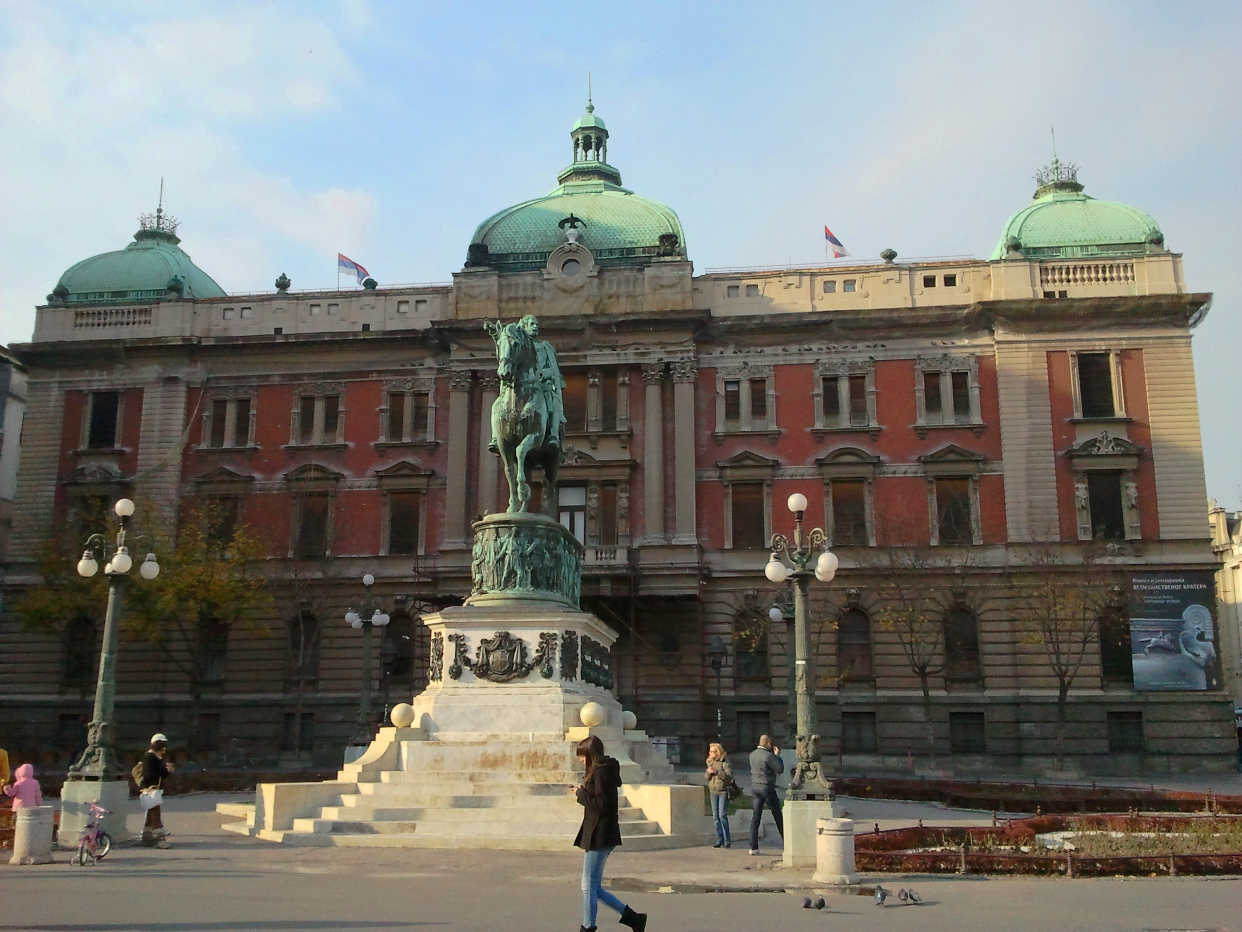 National museum in Belgrade, in front statue of Knez Mihailo Obrenović. Belgrade, Serbia.